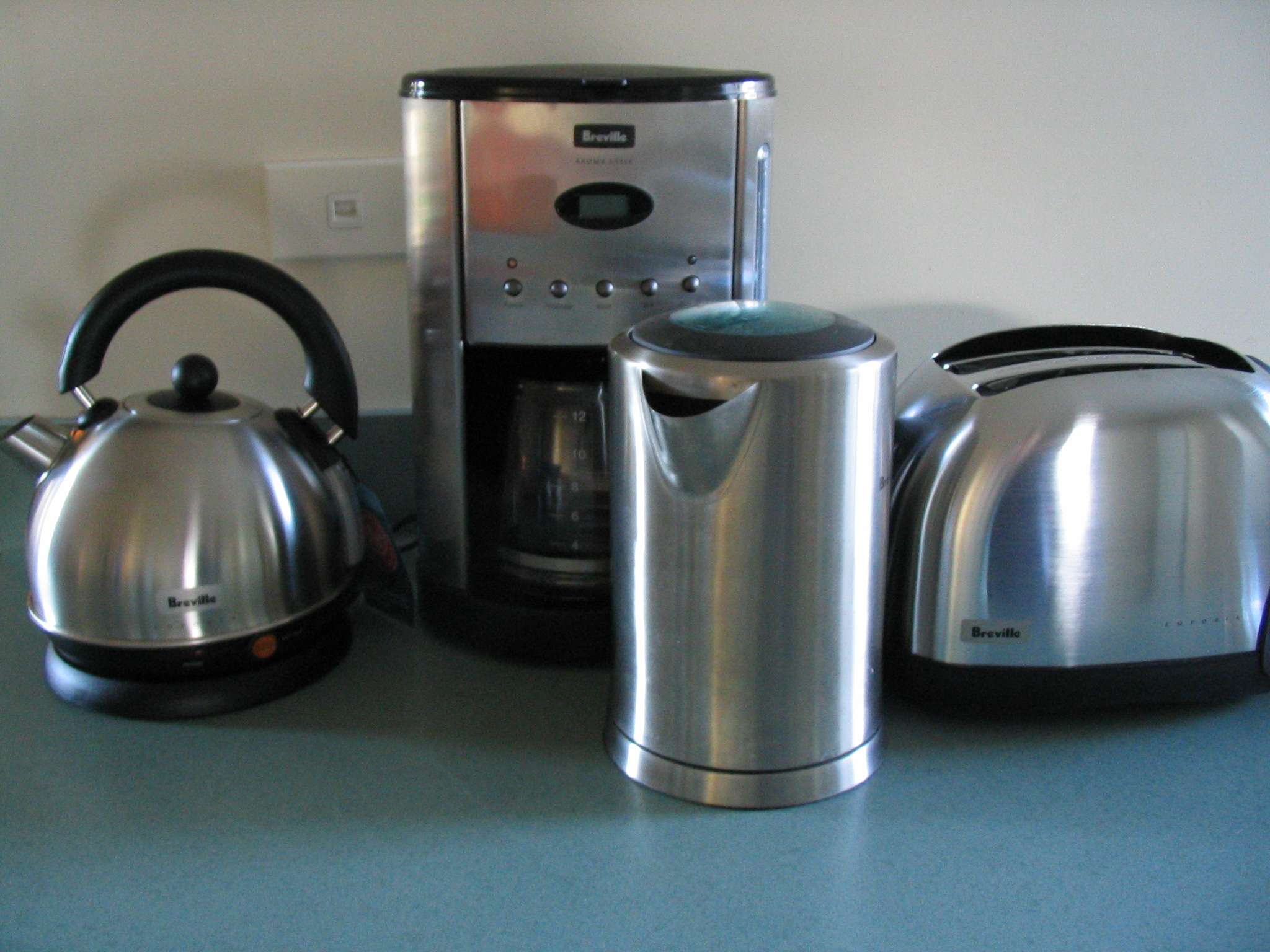 Breville Appliances. From left to right: Emporia BKE400, Aroma Style Electronic BCM600, Ikon SK500, Emporia Toaster CT25B.